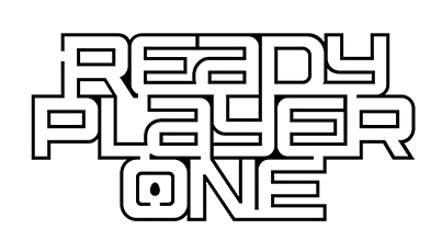 Ready Player One logo